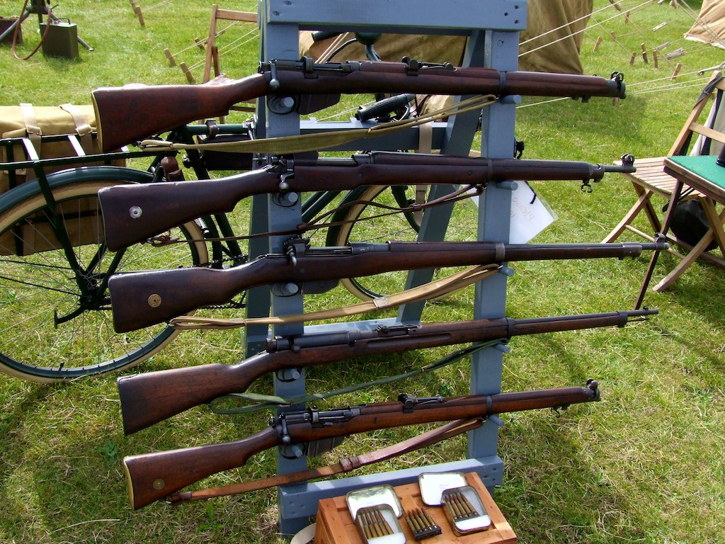 Well bolt action rifles of some sort at Shoreham airshow